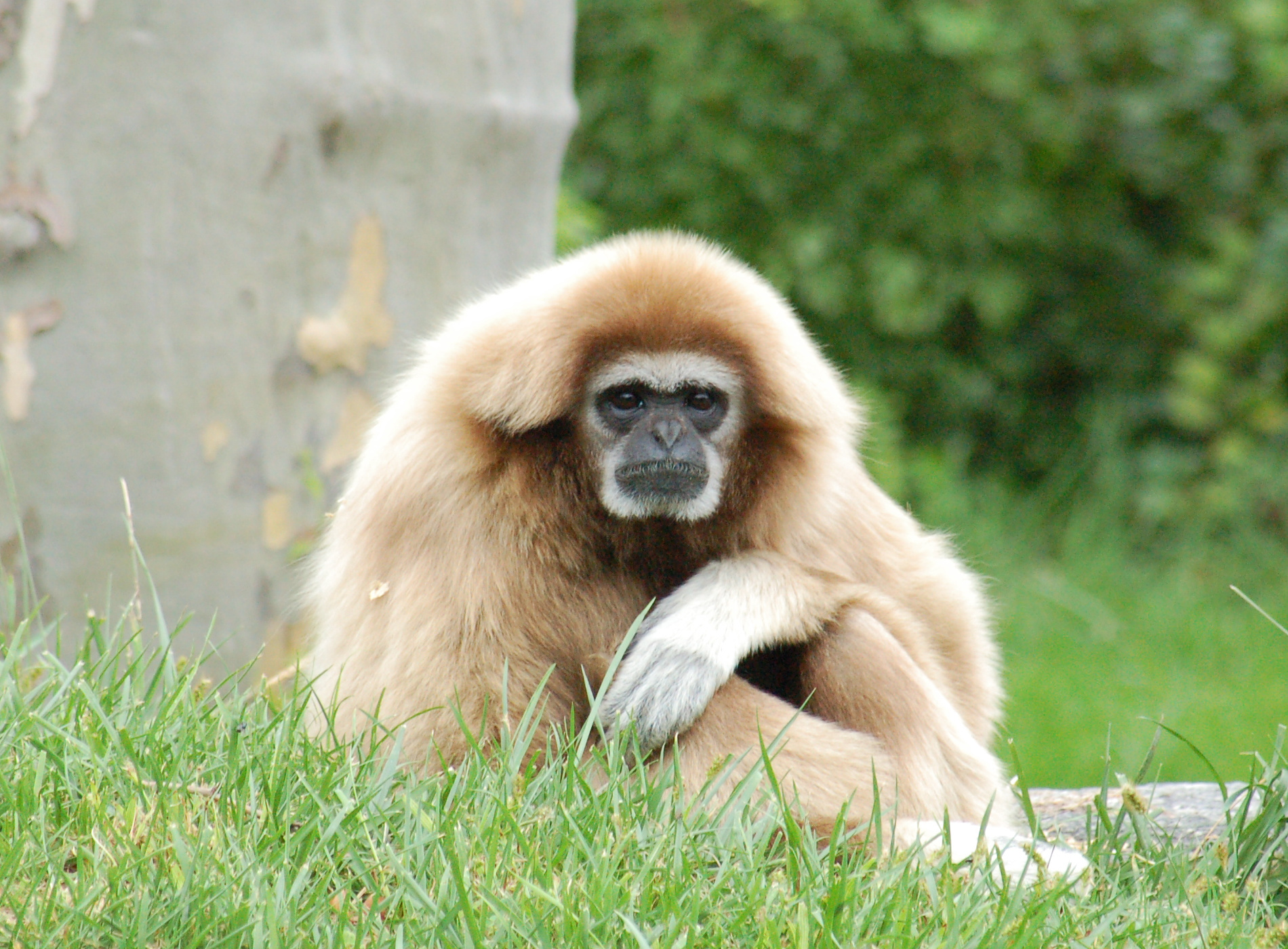 A photograph of a White-handed Gibbon (Hylobates lar). Photo taken at the Philadelphia Zoo where it was identified.